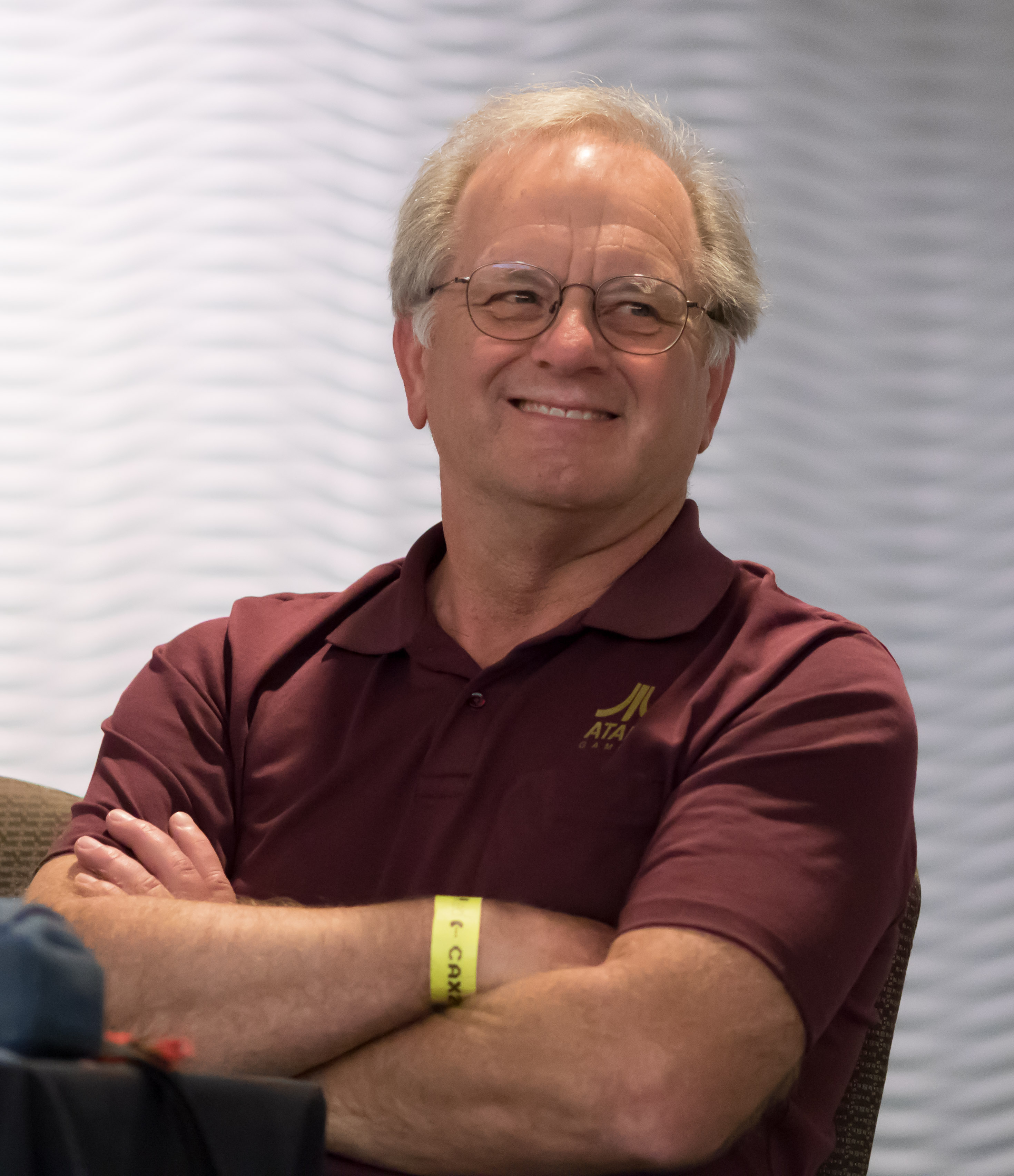 Ed Logg participates in an Atari panel at California Extreme 2015.